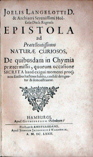 title page of Joel Langelott: Epistola ad praecellentissimos naturae curiosos 1672